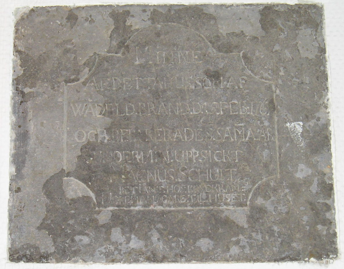 Foto: Kenneth Jademo